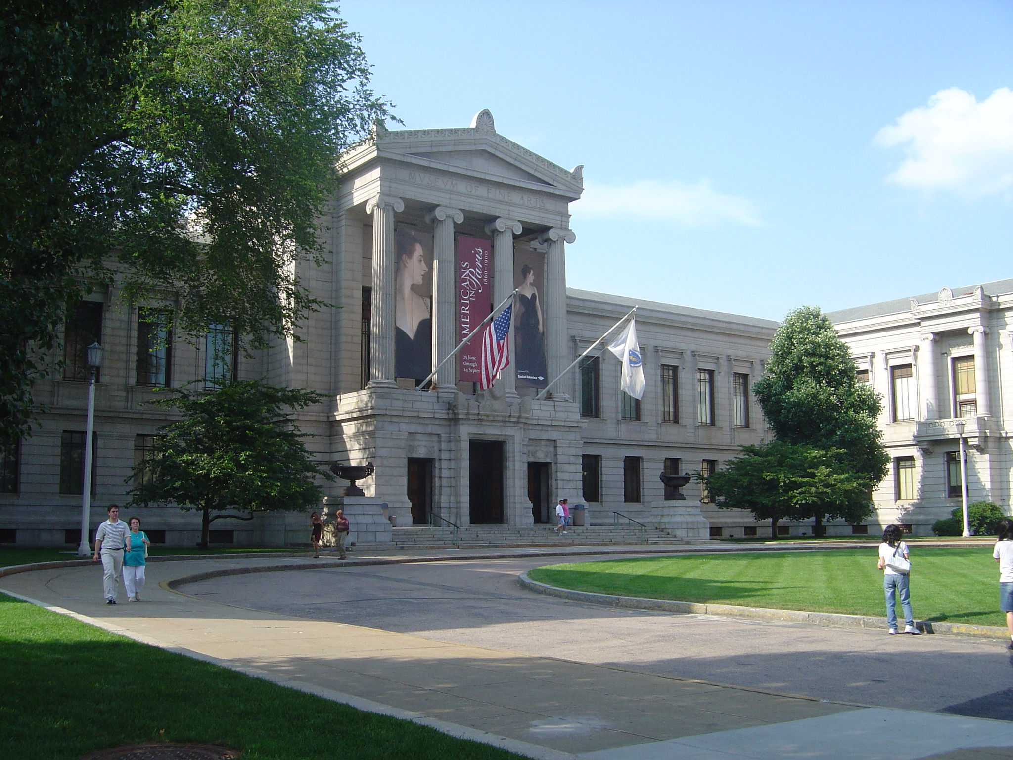 Museum of Fine Arts, Boston, MA Photograph taken by me with a Sony Cybershot Digital camera, July 2006.